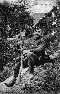 portrait